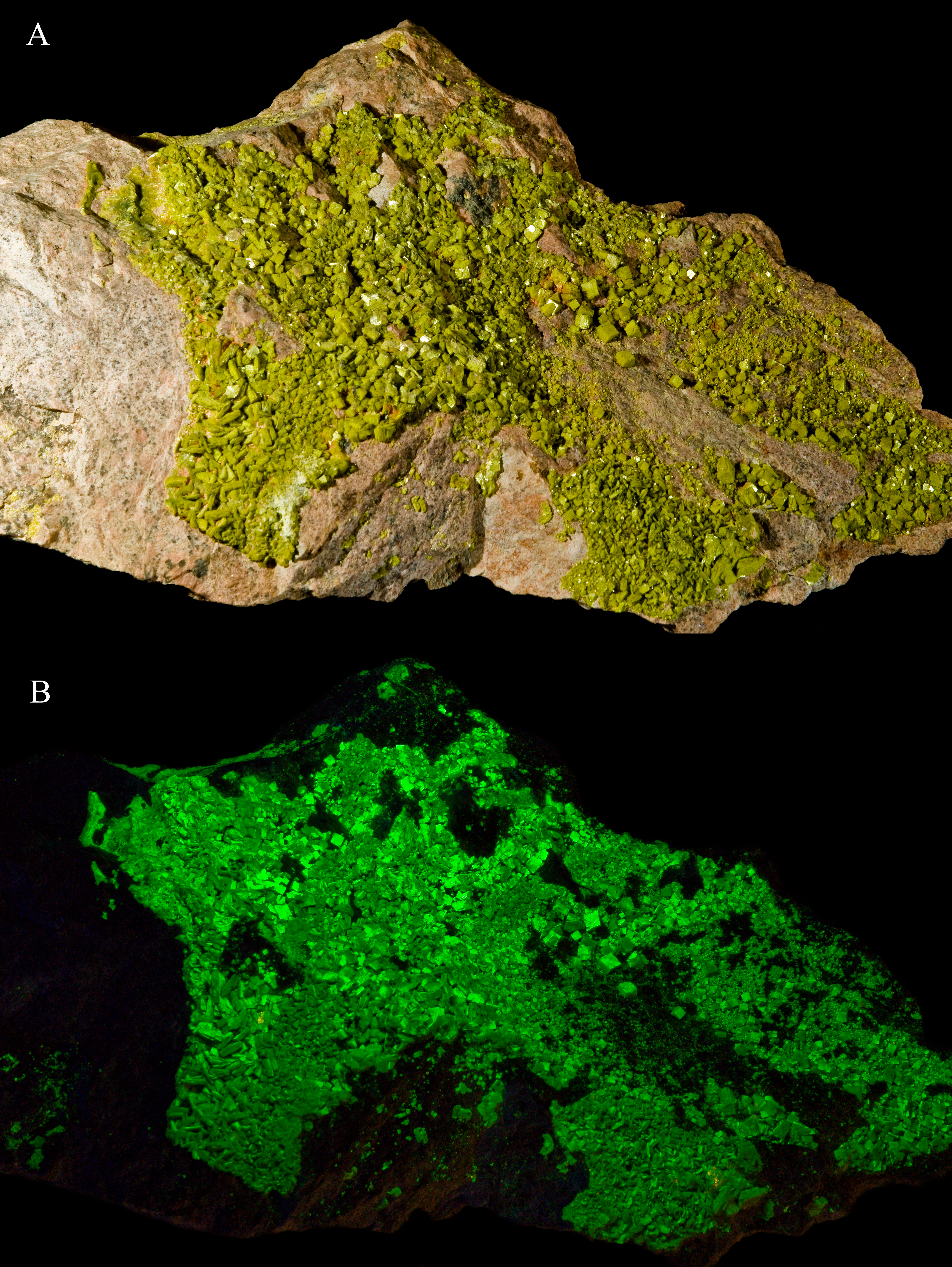 Autunite; A:Daylight B:Ultraviolet light Locality: Les Oudots Quarry, Issy-l'Evêque, Saône-et-Loire, Burgundy, France Taille : 30 x 15 x 7 cm